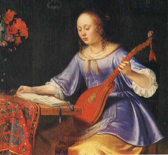 Woman with a Cittern